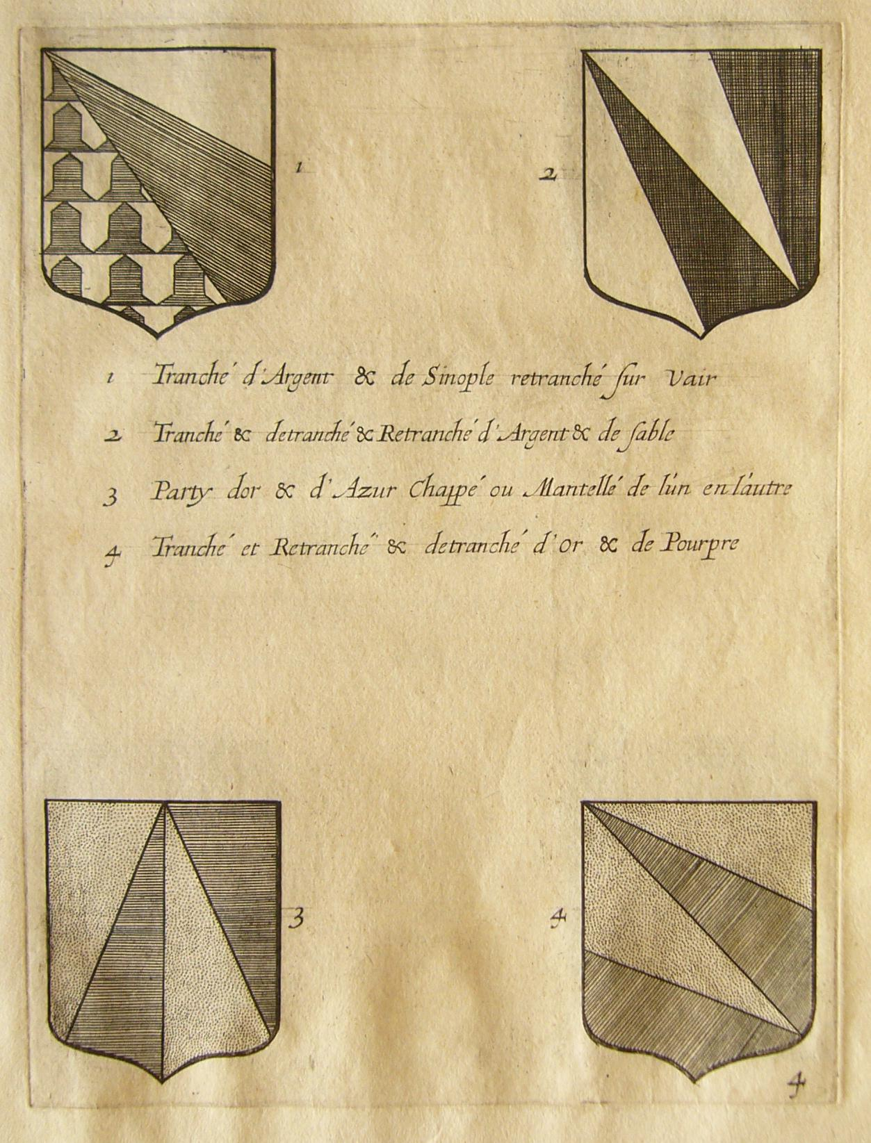 Hatching table from Colombières 1639 book